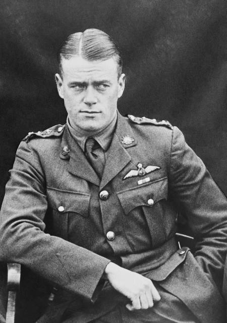 France: Nord Pas de Calais. Informal portrait of Captain Roy Cecil Phillipps MC.